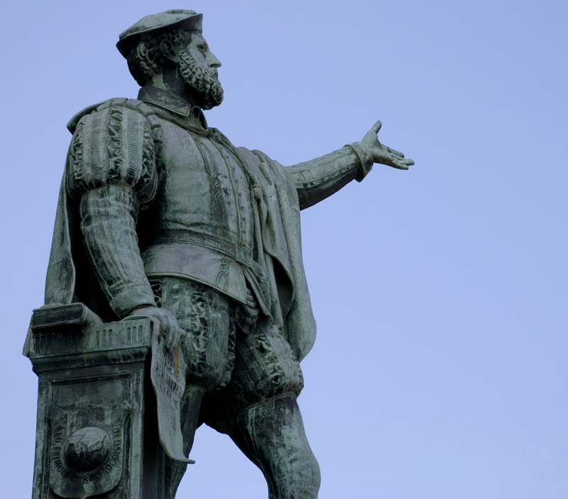 Juan Sebastián Elcano in Guetaria. Bronze statue by Carlos Palao, inaugurated in 1861.